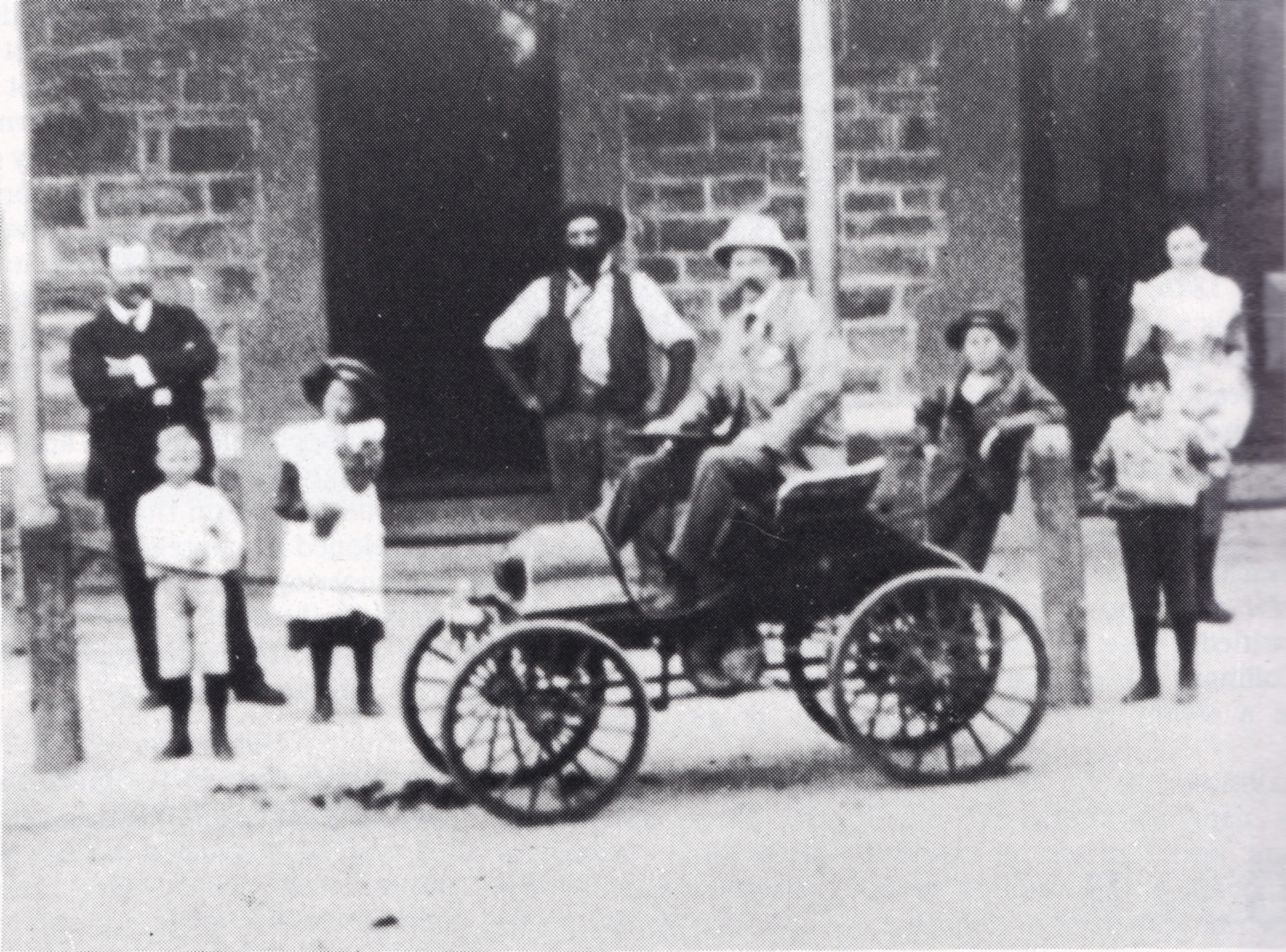 1900 Hammer automobile. A car built by Burno Hammer, a blacksmith of Mount Torrens.